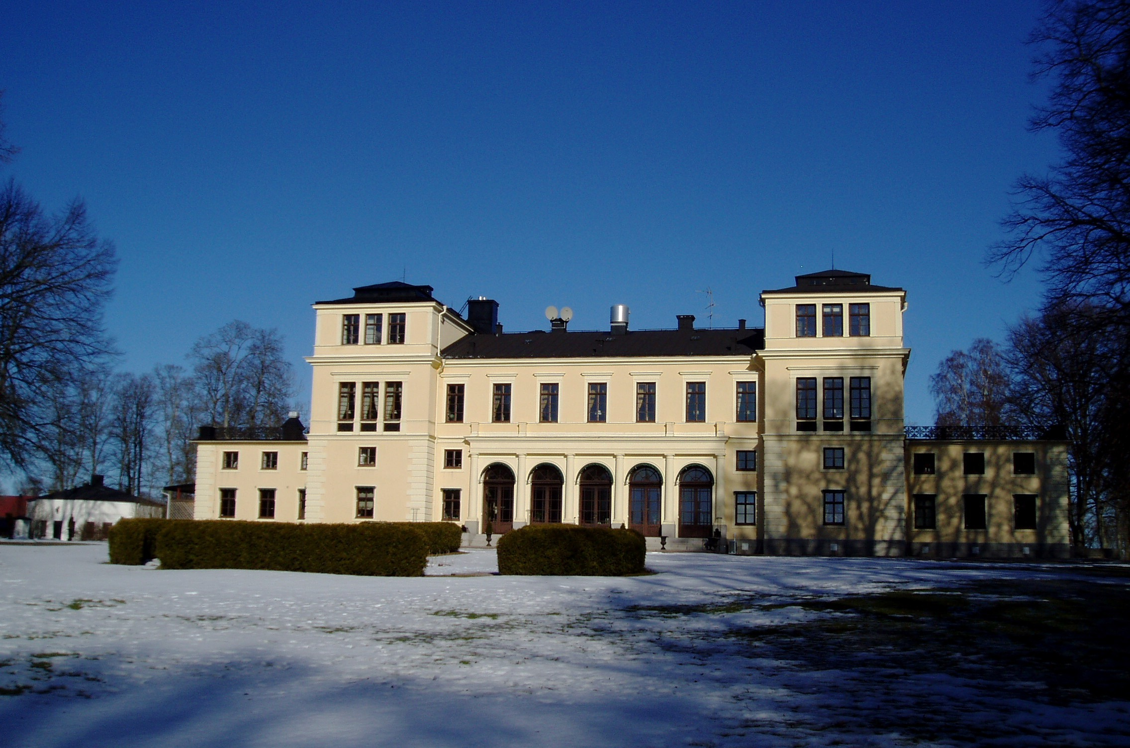 Rånäs Castle, Norrtälje Municipality, Sweden